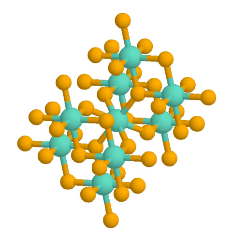 Crystal structure of rutile titanium dioxide